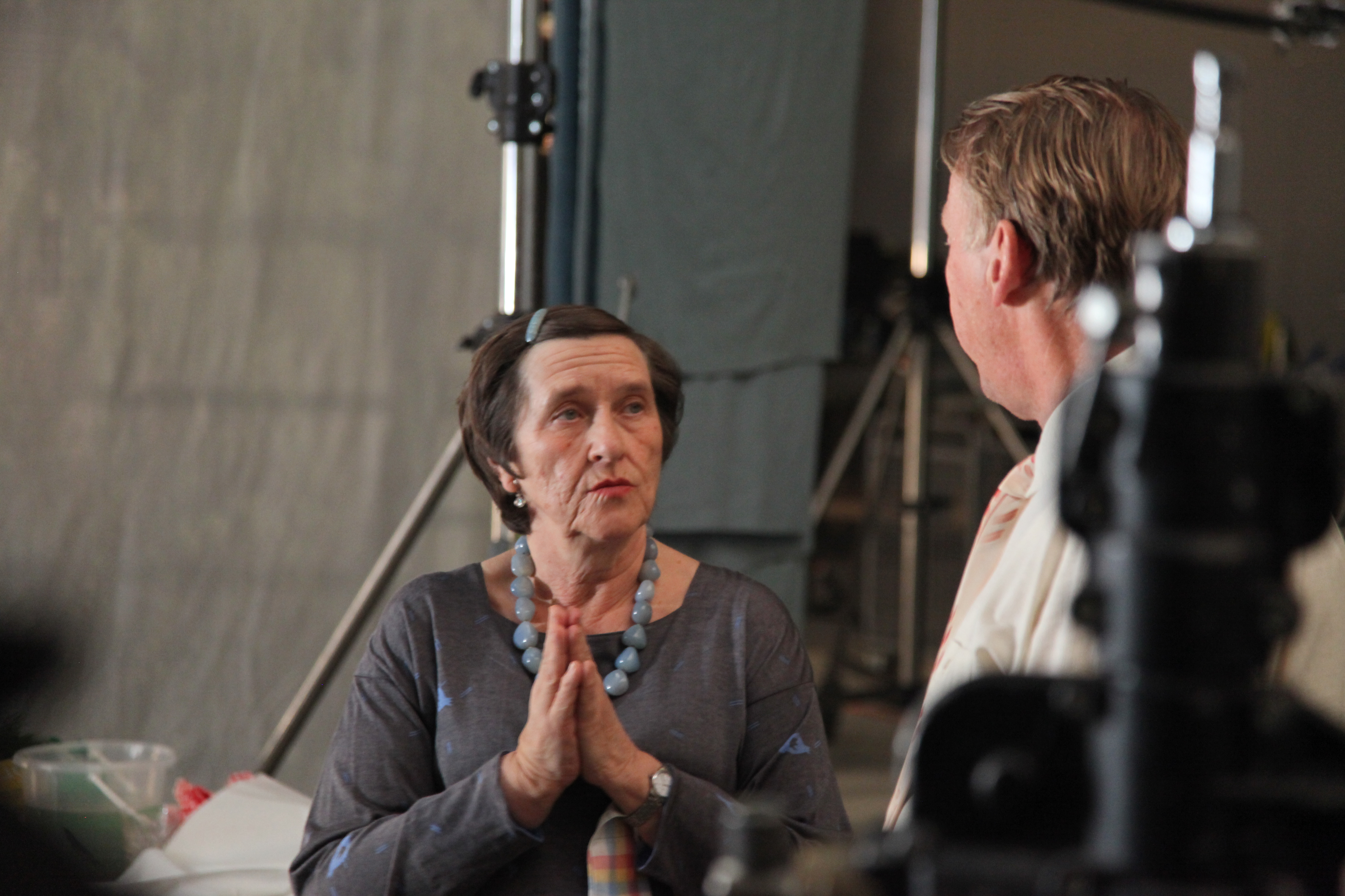 Gunilla Nyroos, 2012.